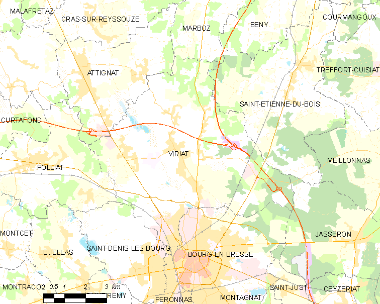 Map of French commune: Viriat Map commune FR insee code 01451.png